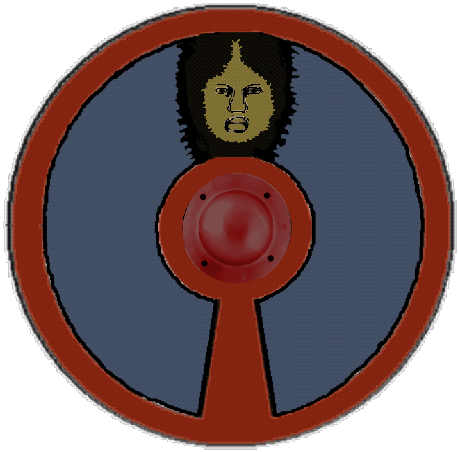 Shield patern o.t. Leones iuniores, one of the auxilia palatina units listed in the Magister Peditum's infantry roster and assigned to the his Italian command.